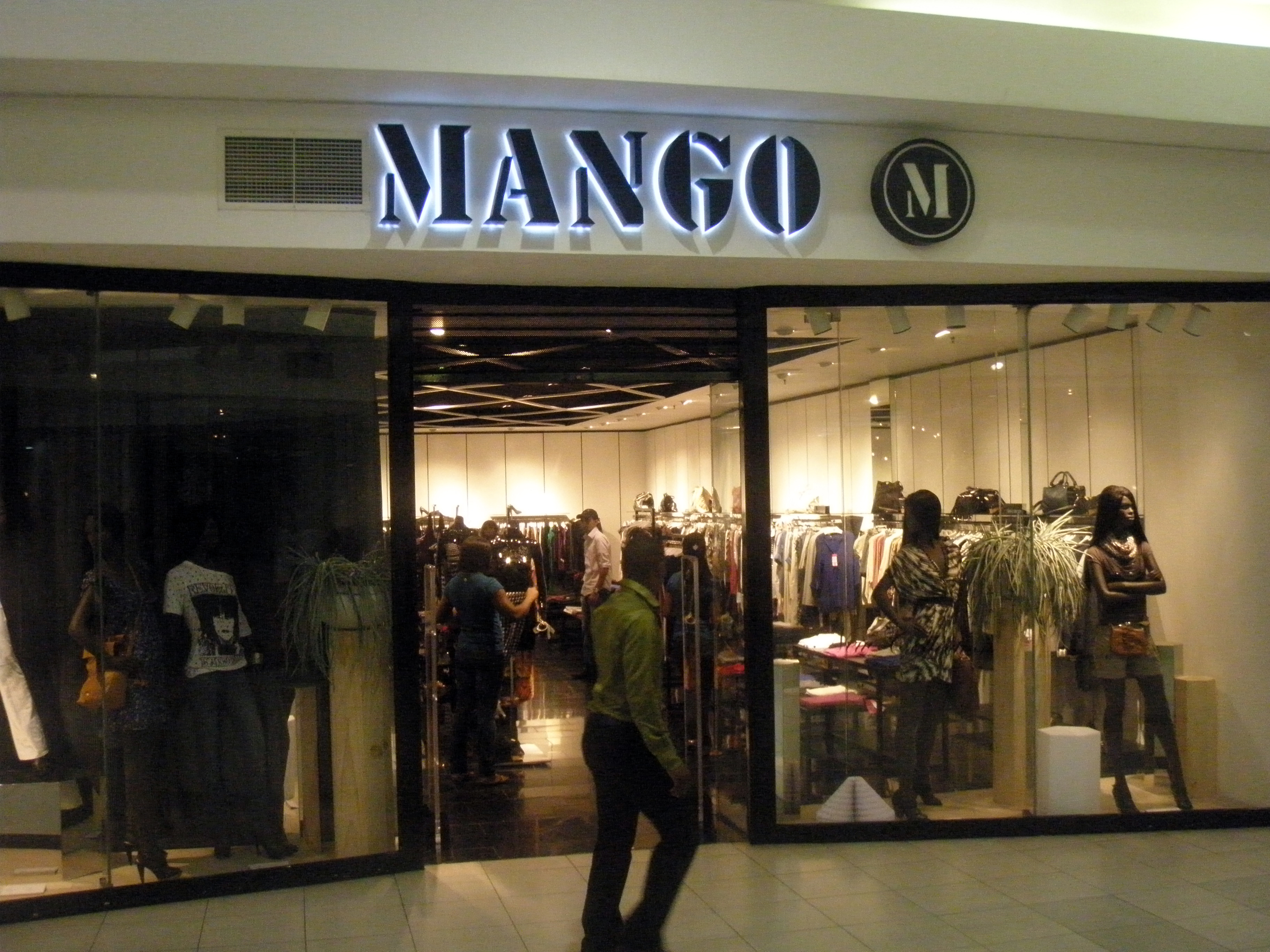 A Mango shop in the Palms Mall, sited in Victory Island, Lagos (Nigeria).